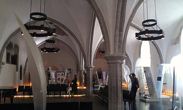 The interior of the Estonian History Museum, which was once the Great Guild Hall of Tallinn.